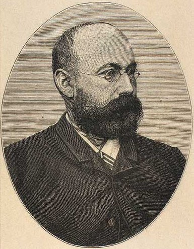 Viggo Bjørnbak (1853-1892), Danish politician, editor, and educator